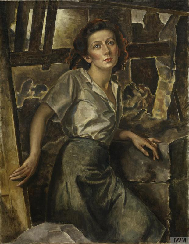 Three quarter length portrait of Marion Patterson, GM, wearing a blouse &skirt, standing in a bomb-damaged building.